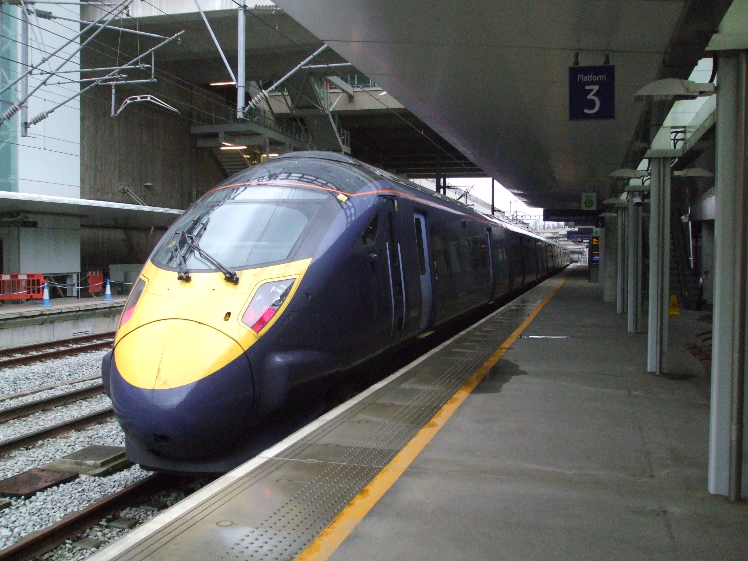 Class 395 unit 395018 departs Stratford International station with an eastbound service to Ebbsfleet International.